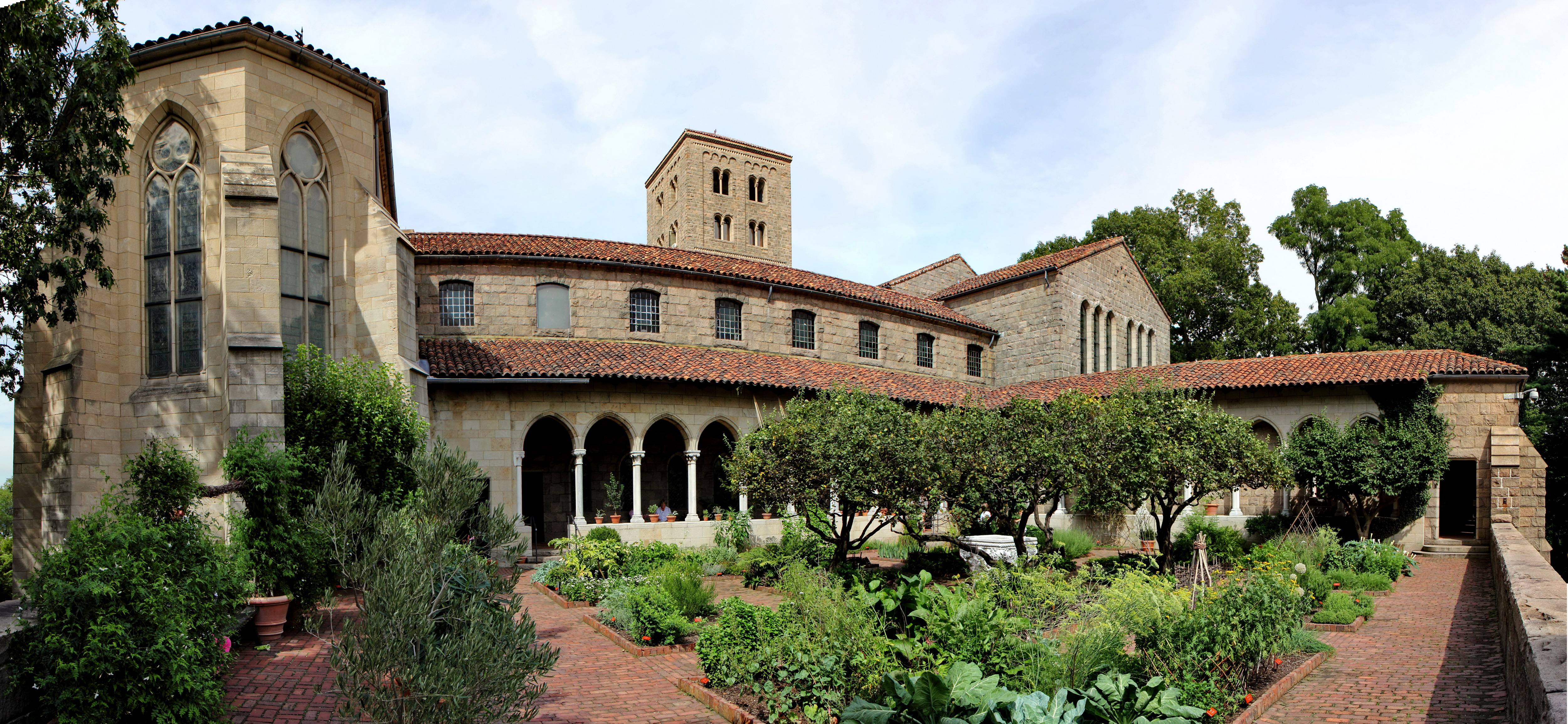 Fort Tryon Park and the Cloisters